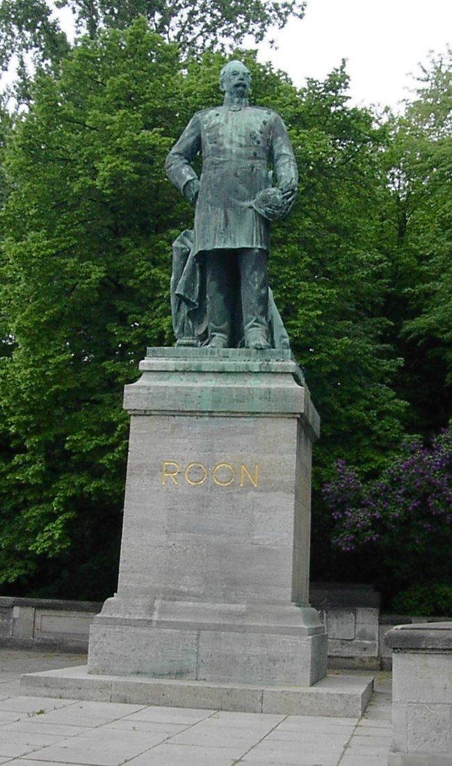 Statue of Albrecht Graf von Roon, Tiergarten, Berlin